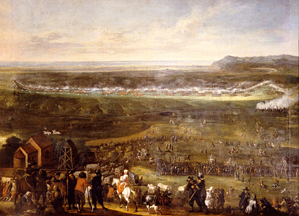 14 July 1677: The battle of Tirups Hed (moor) outside of Landskrona. Swedish victory.